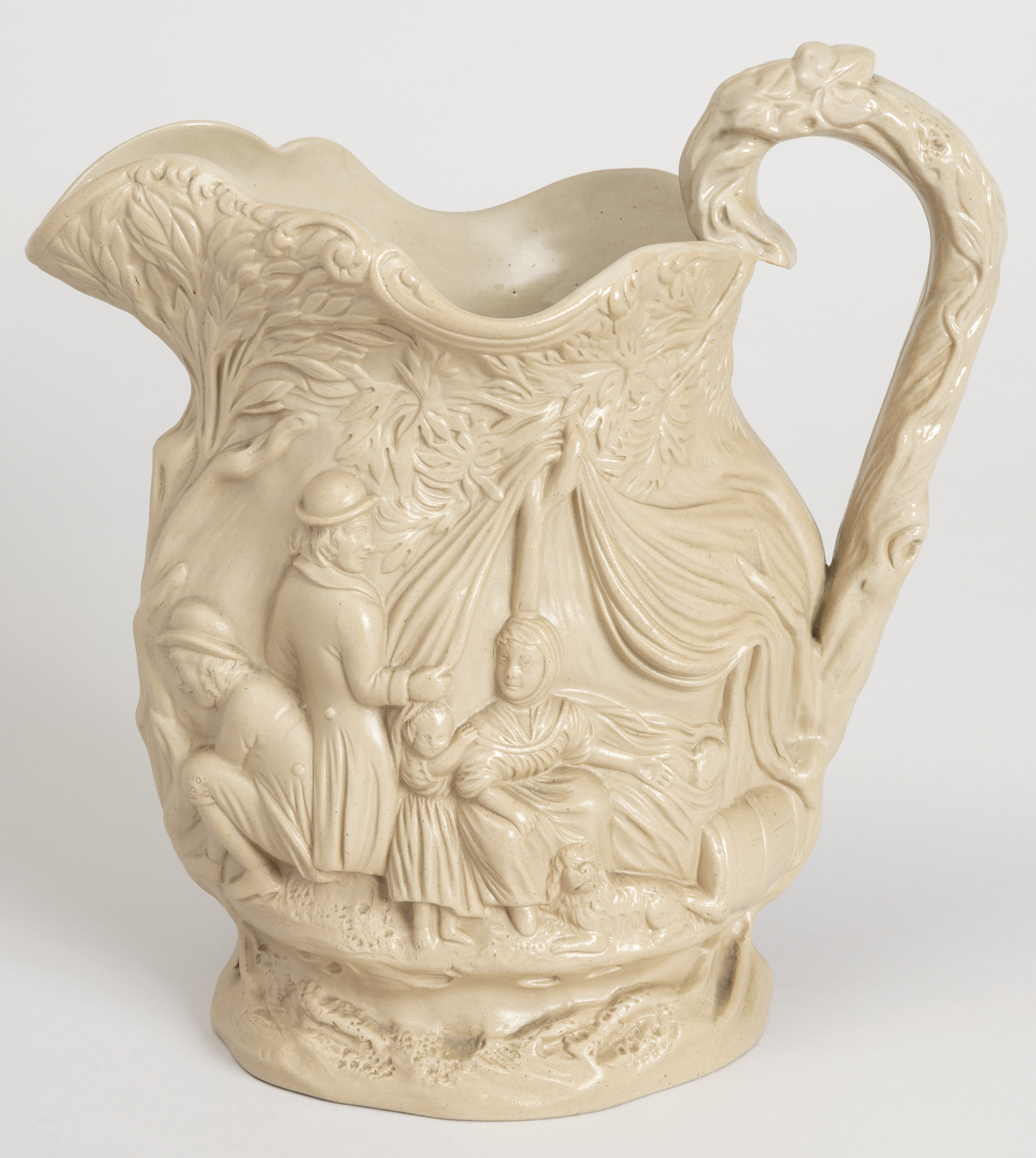 Putty-colored job with relief decoration showing a family under a tent.